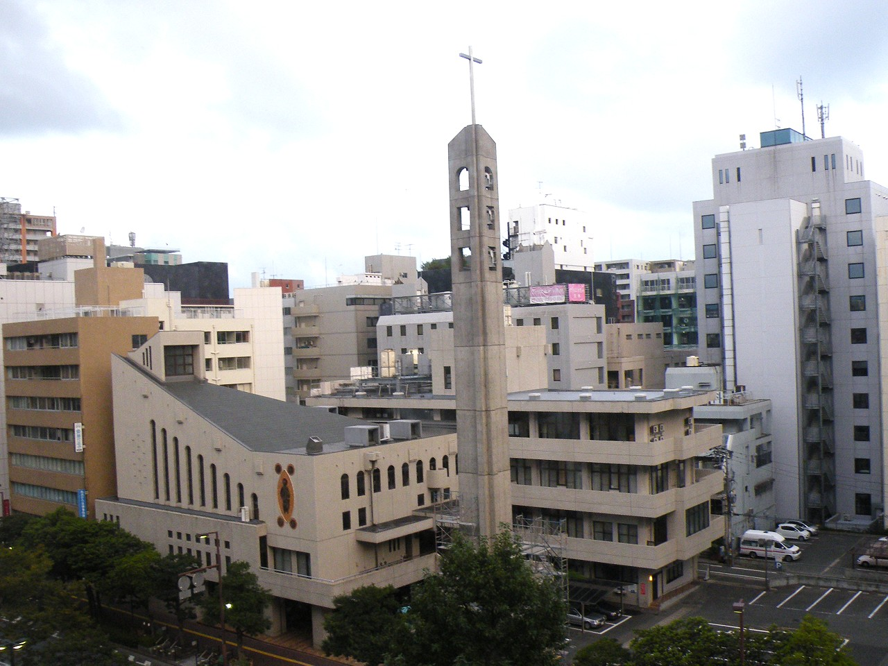 Daimyomachi Catholic Church (Fukuoka Cathedral Center)